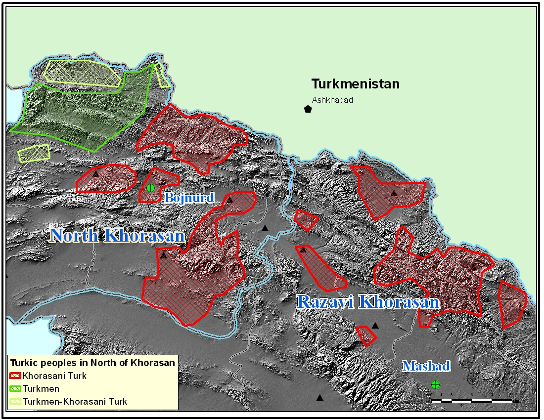 Turkic people in North khorasan region (North Khorasan and Razavi Khorasan provinces); without Turic people that live in west and south counties of khorasan region (Nishapur County, Sabzevar County and etc).